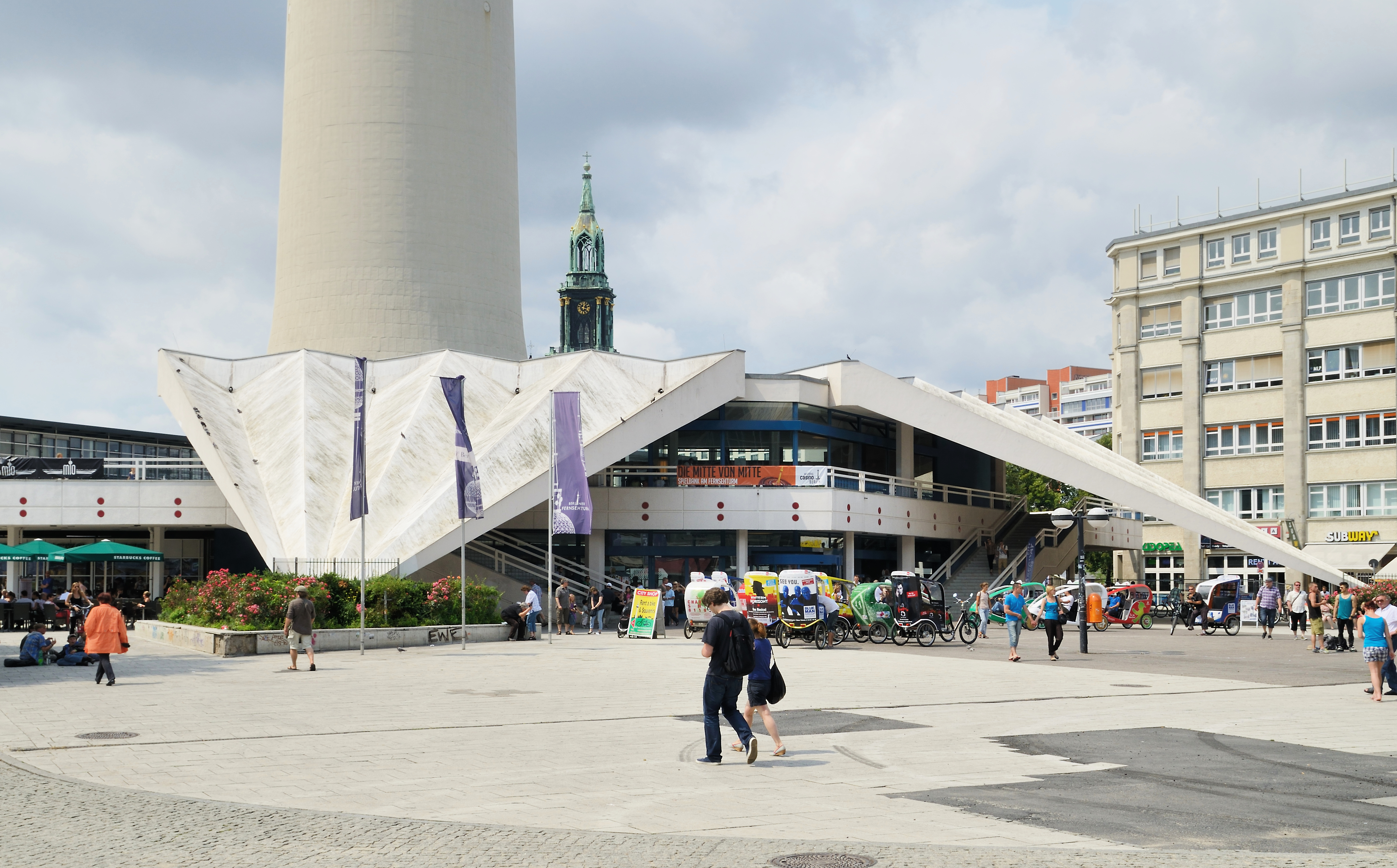 Berlin: Television Tower